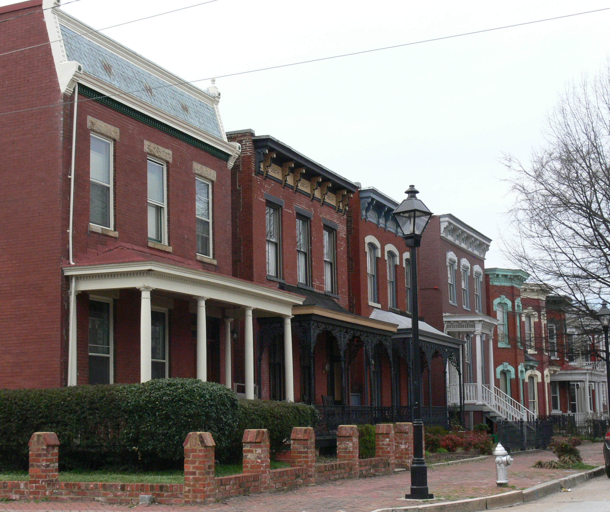 View of the neighborhood of Jackson Ward, in Richmond, Virginia.